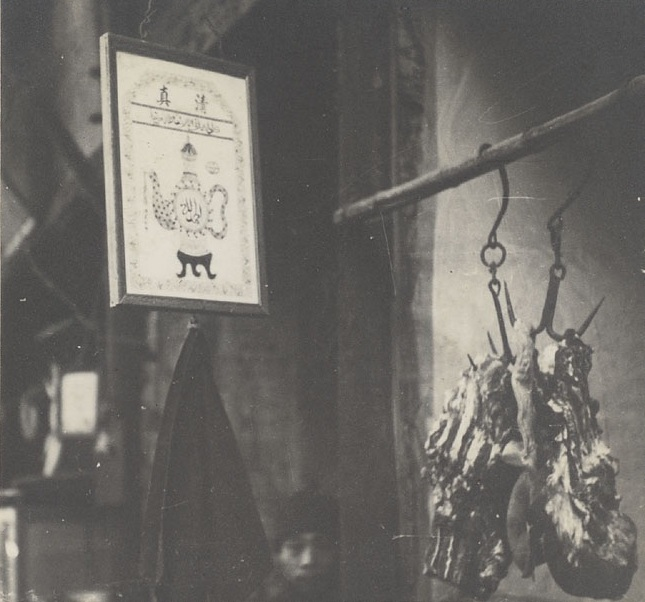 (Original text description) Hankow. Moslem meat shop sign. Dimensions 6.5 x 7 cm. Location Meat shop, Hankou, Hubei Sheng, China. General: Excerpt from unpublished photo essay, plate 59: "A Moslem restaurant sign with the teapot and Arabic in the center. At the top are two Chinese characters 'ch'ing' and 'chen,' clean and true. Just these two characters on many signs make a shop one where Moslems may eat. These correspond to the "kosher" characters on a Jewish eating house."